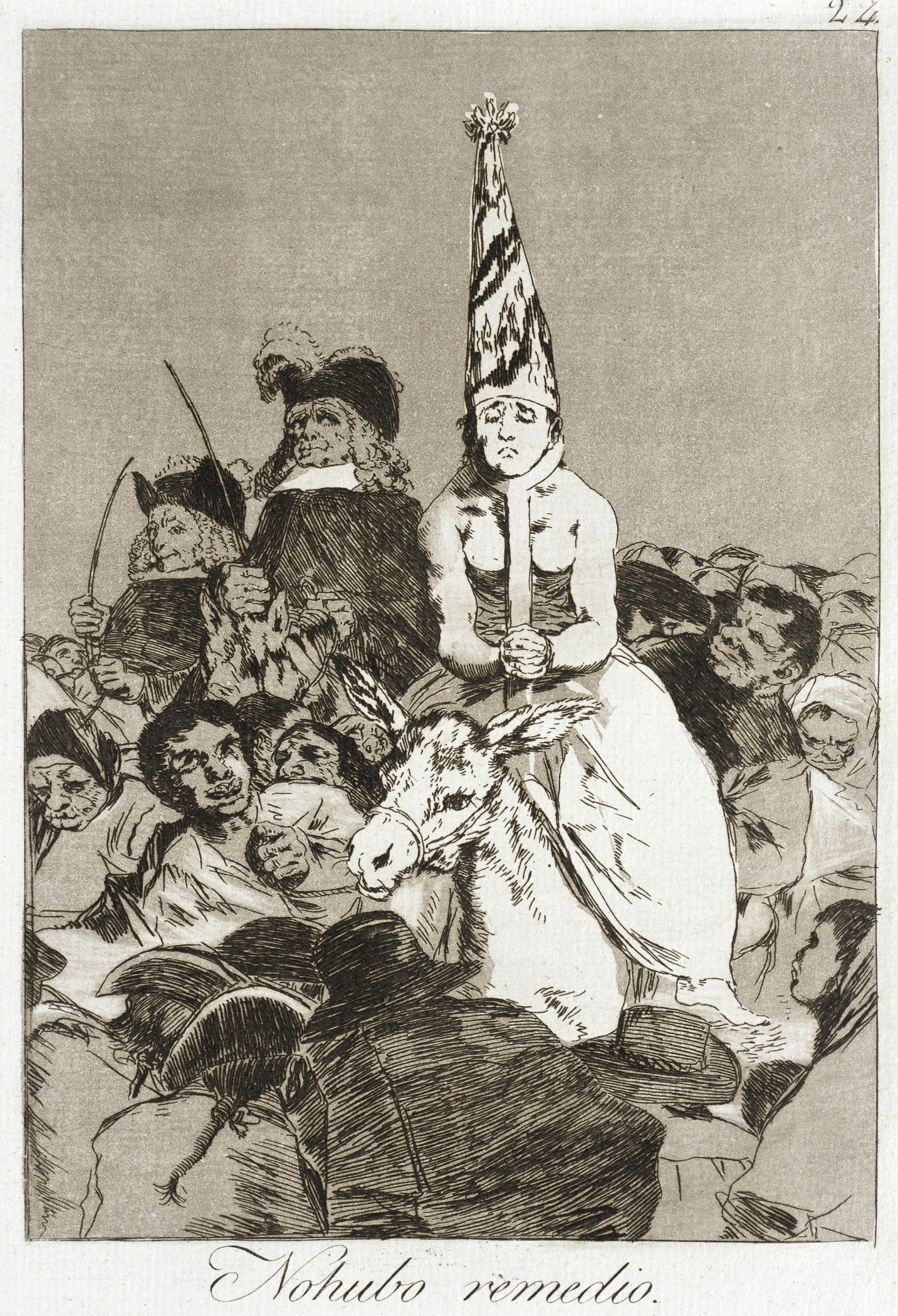 Spain, 1799 Alternate Title: No hubo remedio Portfolio: Los Caprichos, plate 24 Prints; etchings Etching and burnished aquatint Paul Rodman Mabury Trust Fund (63.11.24) Prints and Drawings